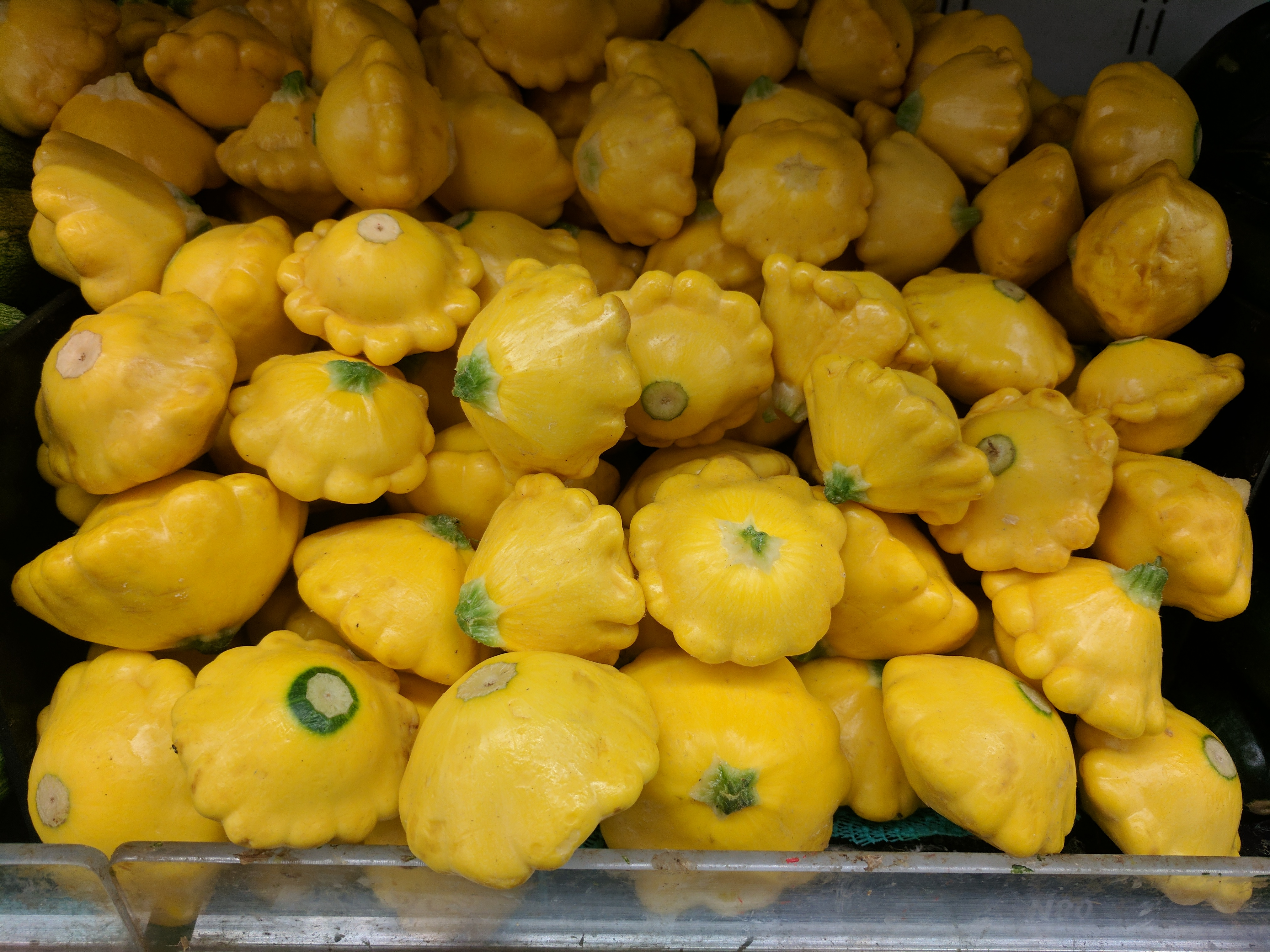 Ripe pattypan squashes, also known as summer squashes, on display.